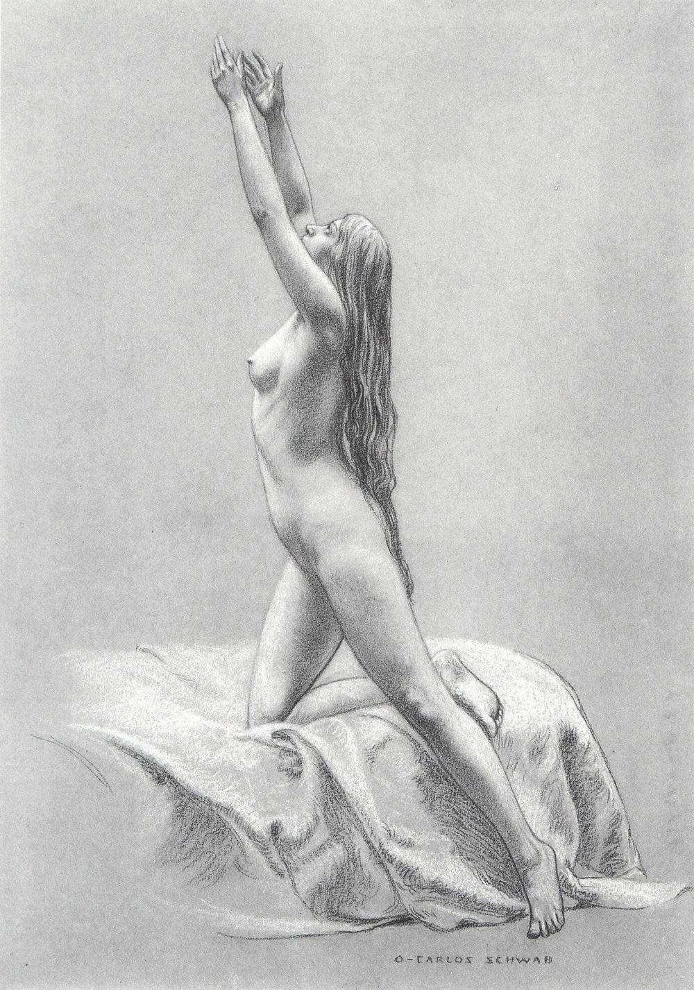 Altona (Germany)